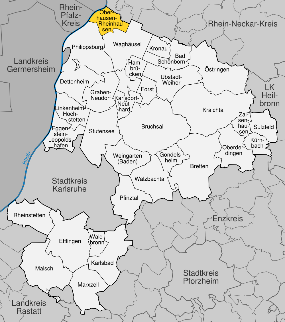 position of Oberhausen-Rheinhausen within distict of Karlsruhe, Baden-Württemberg, Germany